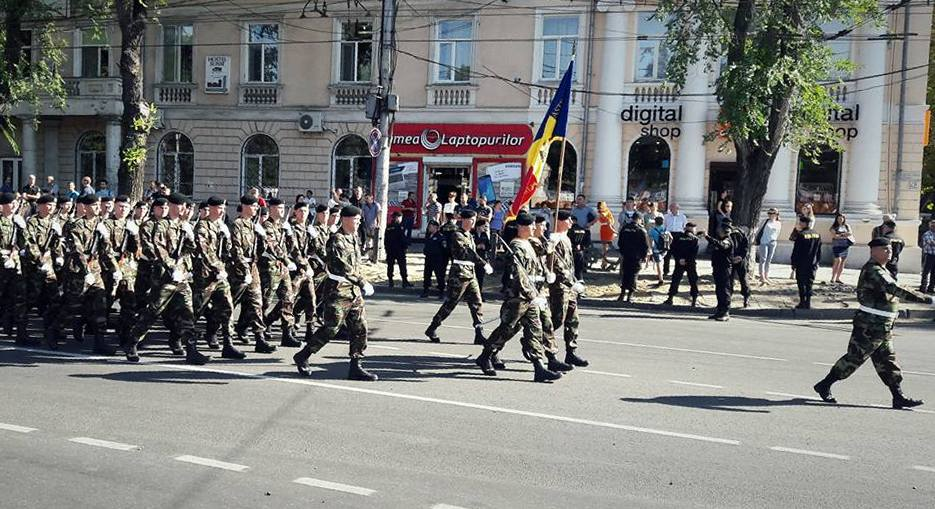 У Кишиневі українські військовослужбовці готуються до участі в параді з нагоди 25-ї річниці незалежності Республіки Молдова